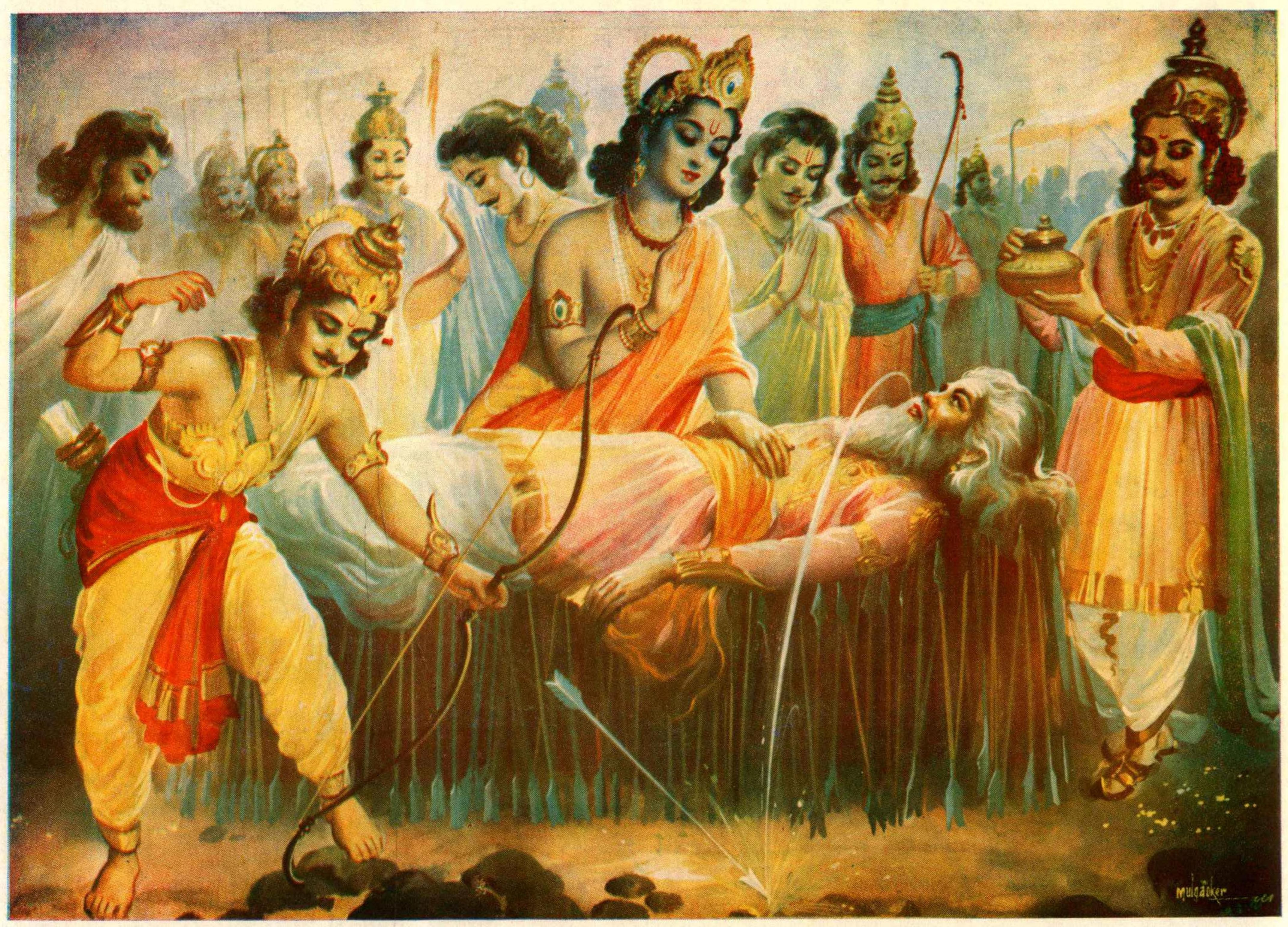 Mahabharata Tej Kumar Book Depot Mahavir Prasad Mishra by MahaMuni Usage Topics Sanskrit, "महामुनि का संग्रह", "Tej Kumar Book Depot" Collection opensource Language Sanskrit Indological Books , 'Mahabharata Tej Kumar Book Depot - Mahavir Prasad Mishra.pdf' Identifier MahabharataTejKumarBookDepotMahavirPrasadMishra Identifier-ark ark:/13960/t2994g734 Ocr language not currently OCRable Ppi 600 Scanner Internet Archive HTML5 Uploader 1.6.3